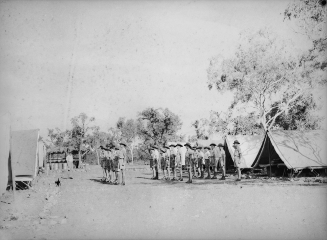 Darwin Overland Maintenance Force at Parade, Birdum Military Camp, Jan 25, 1941.